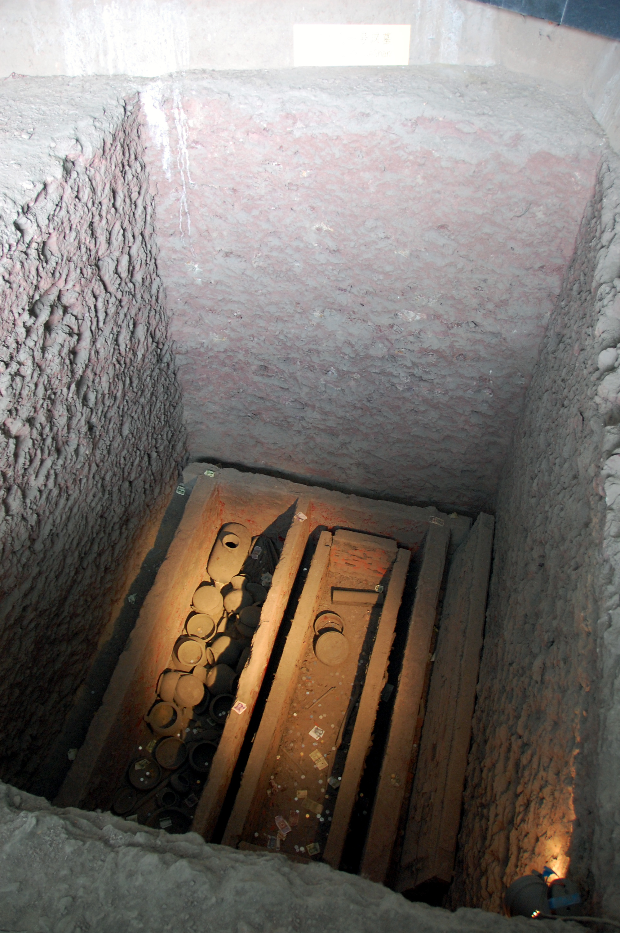 Yinqueshan Han tomb